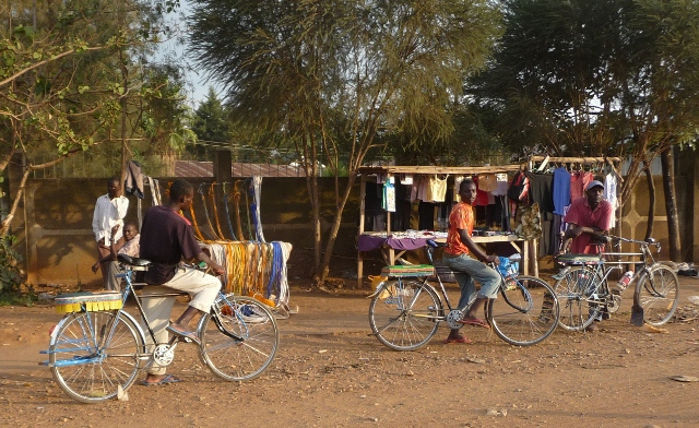 Bodaboda taxis in Kakamega town